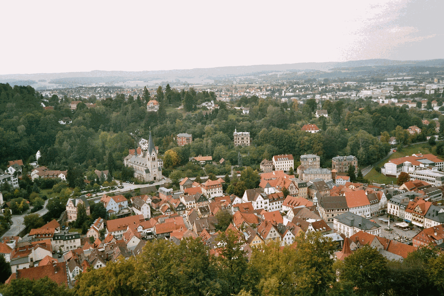 Kulmbach, Franconia, Germany, view of he city seen from the castle Plassenburg